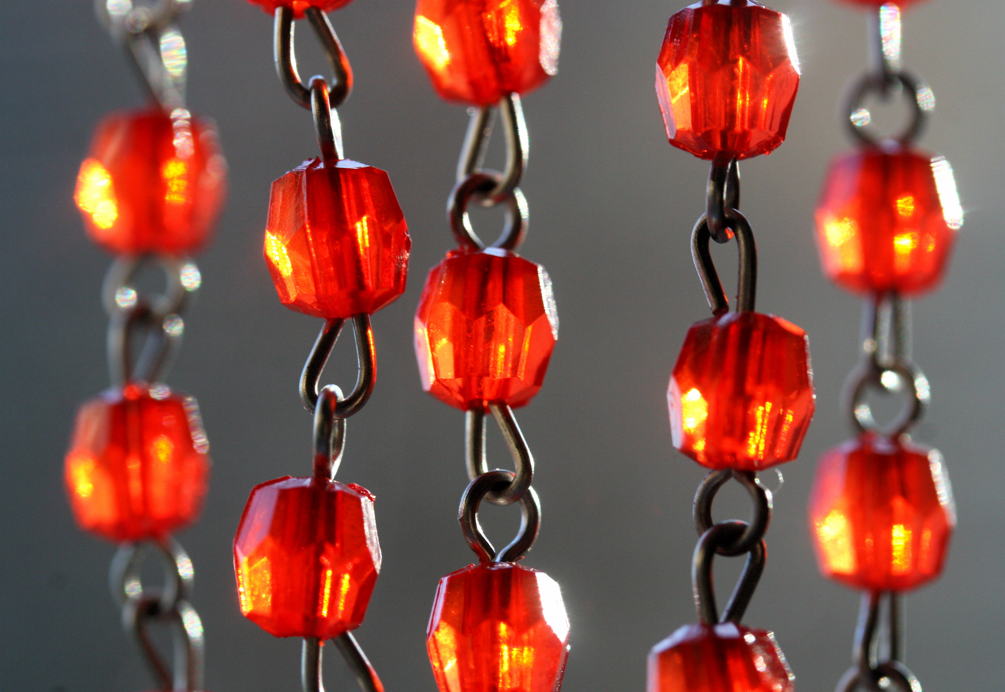 I am not Catholic, but because I support a charity that is, I receive all sorts of literature and items aimed at Catholics. Yesterday, I received a rosary with pretty red beads. Judging by the solicitations that I receive, marketers believe I am Catholic/Buddhist/Christian/Jewish and Gay/Straight/Bisexual and probably Black/Caucasian/Asianwith young children/aged parents and interests that range from computers/cameras/chinapatterns to hunting/fishing/doll collecting. Marketers fascinate me. Many days, my dead mother recieves far more mail than I do. Because she died 8 years ago, I wonder how long the marketers will persist. Perhaps marketing lists constitute true immortality. Maybe the lists last forever.